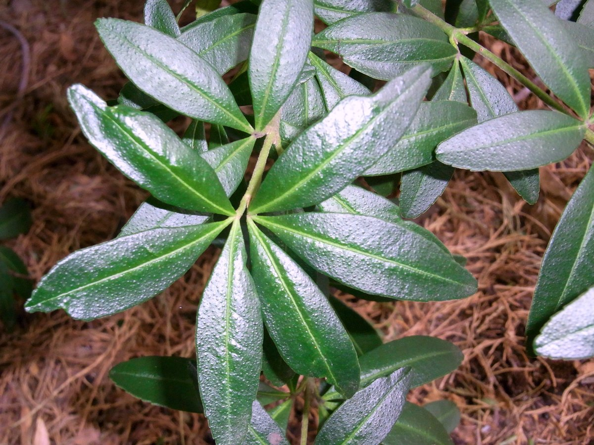 Acradenia frankliniae Hobart gardens